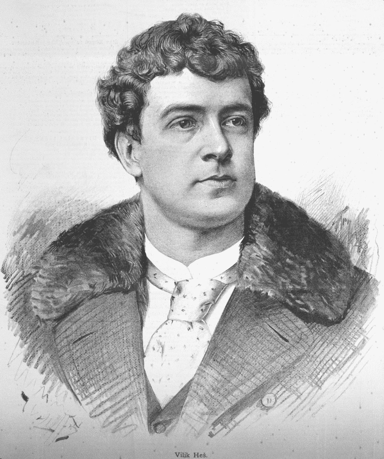 Vilém Heš (1860-1908), Czech opera singer